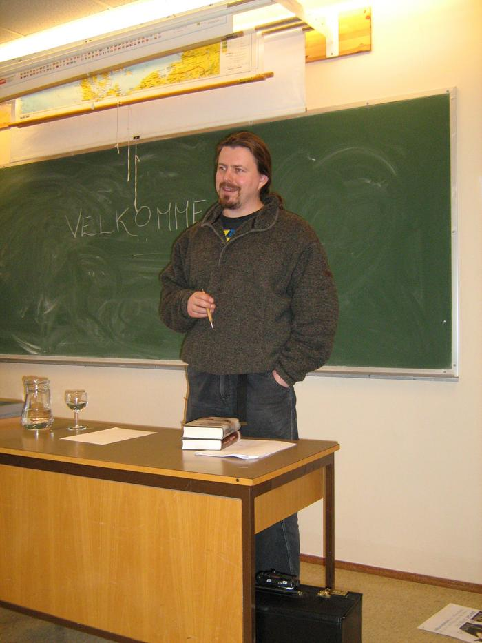 The author B. Andreas Bull-Hansen is a popular lecturer.